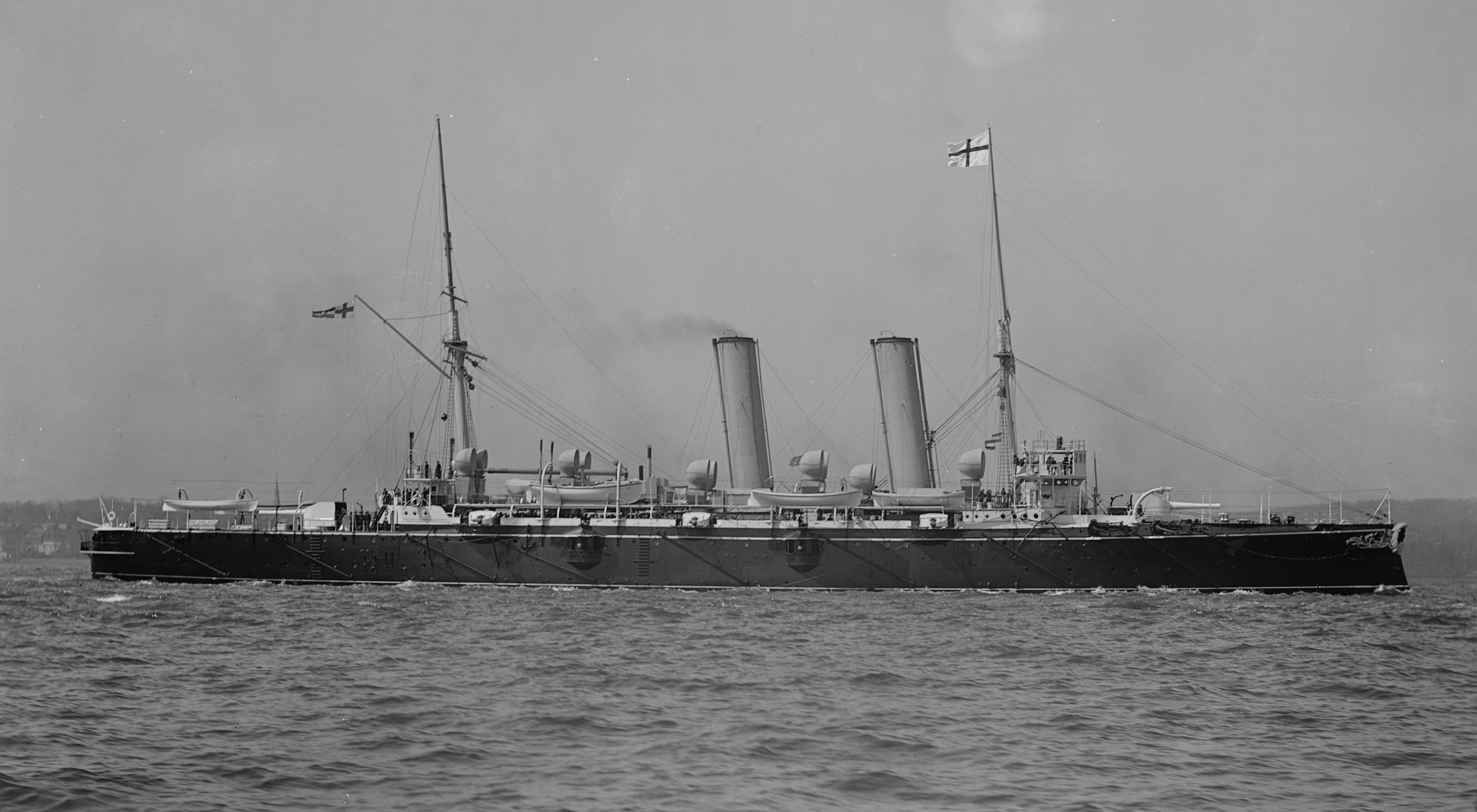 British cruiser HMS Blake. Original image cropped to focus on ship.